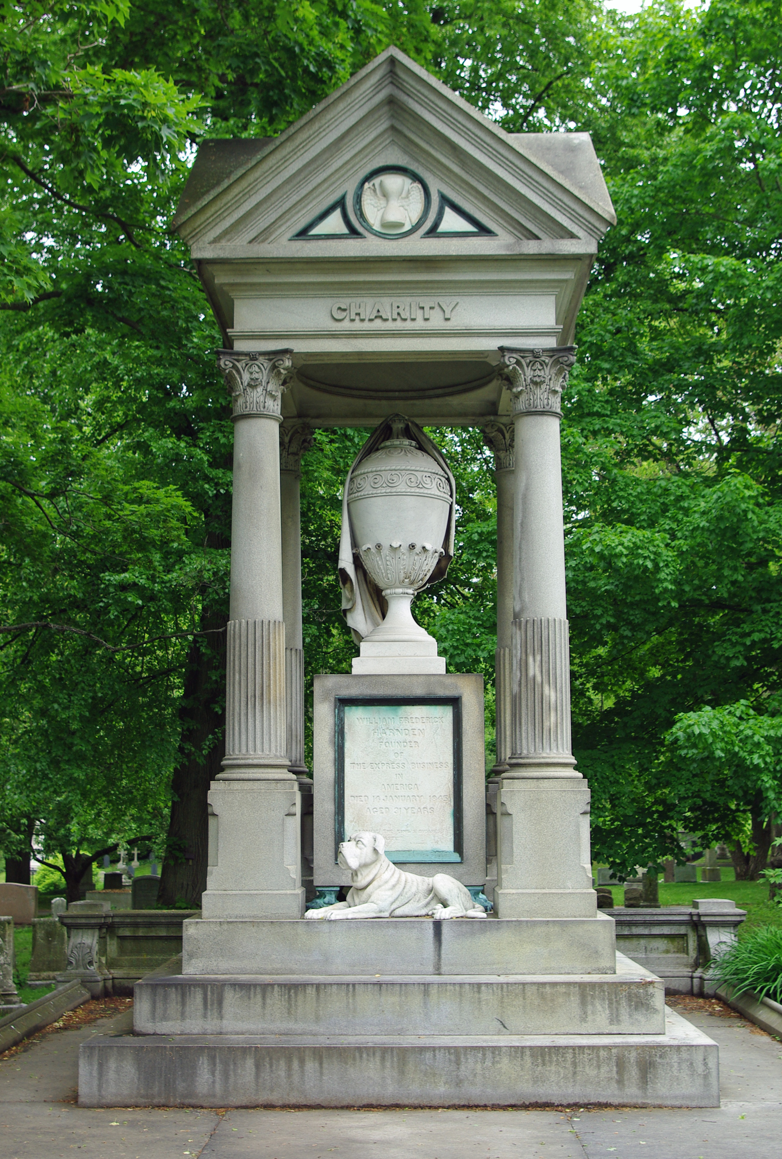 William F. Harnden Monument by Thomas Carew (1866), Mount Auburn Cemetery, Cambridge (MA)